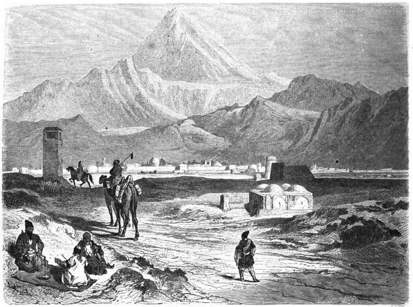 Mount Damavand.